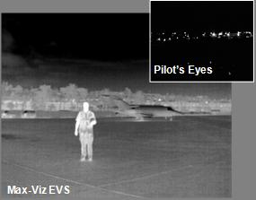 Max-Viz EVS with witness camera at night on tarmac in San Diego, California